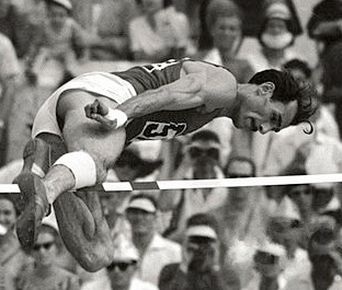 Robert Shavlakadze at the 1960 Olympics.